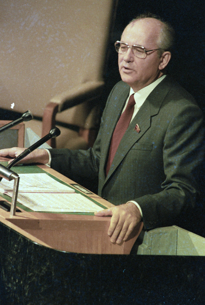 “Mikhail Gorbachev”. General Secretary Mikhail Gorbachev of the USSR speaks at the opening of a UN General Assembly meeting.